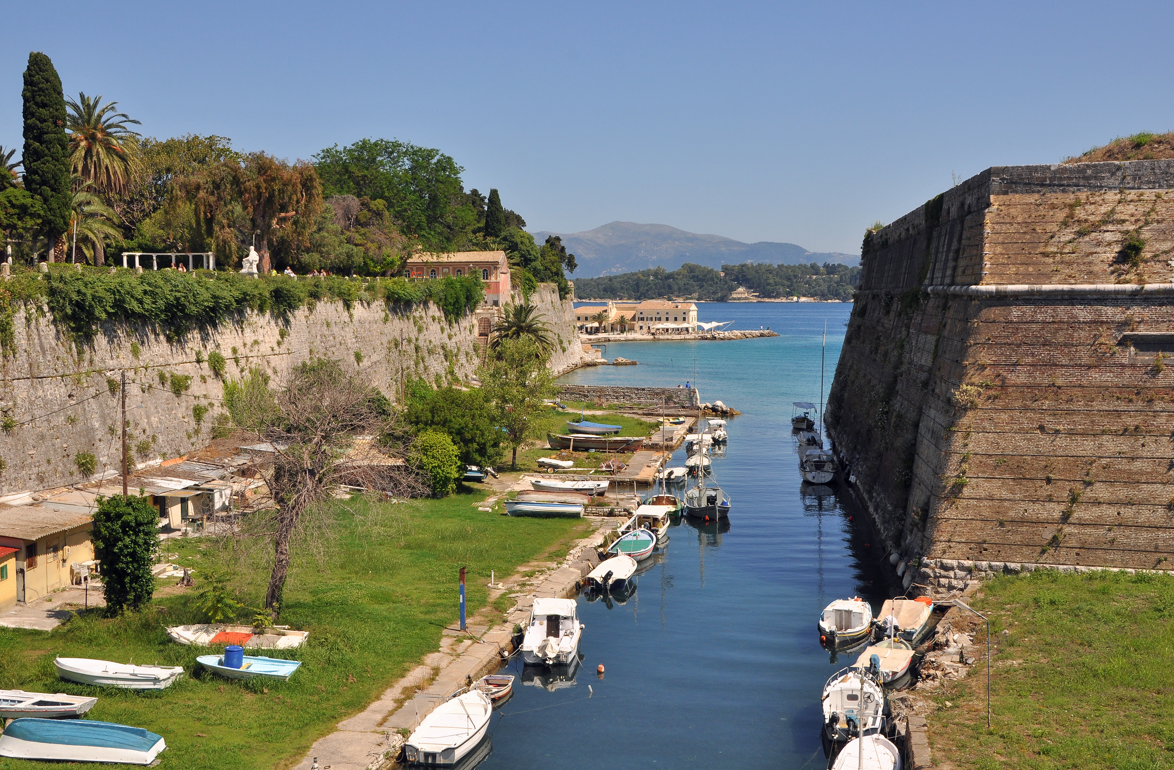 Corfu Town (Corfu, Greece): the old fortress